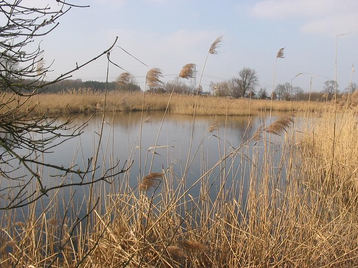 Lake in Löwenbruch. The village Löwenbruch is a part of the town Ludwigsfelde in the district Teltow-Fläming, state Brandenburg, Germany.